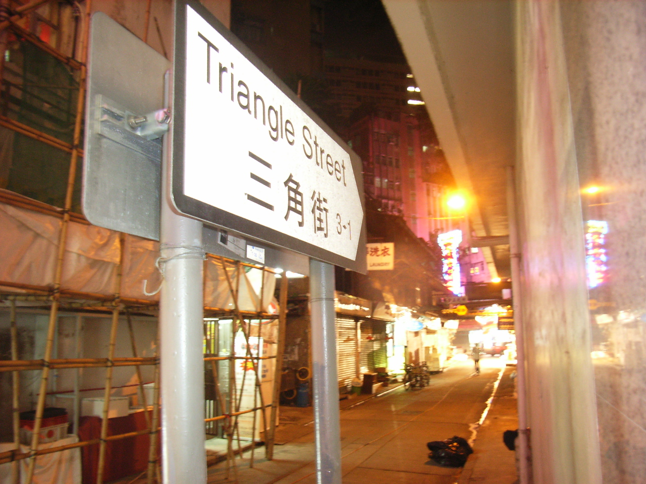 Self-created by Bera O6 Muda